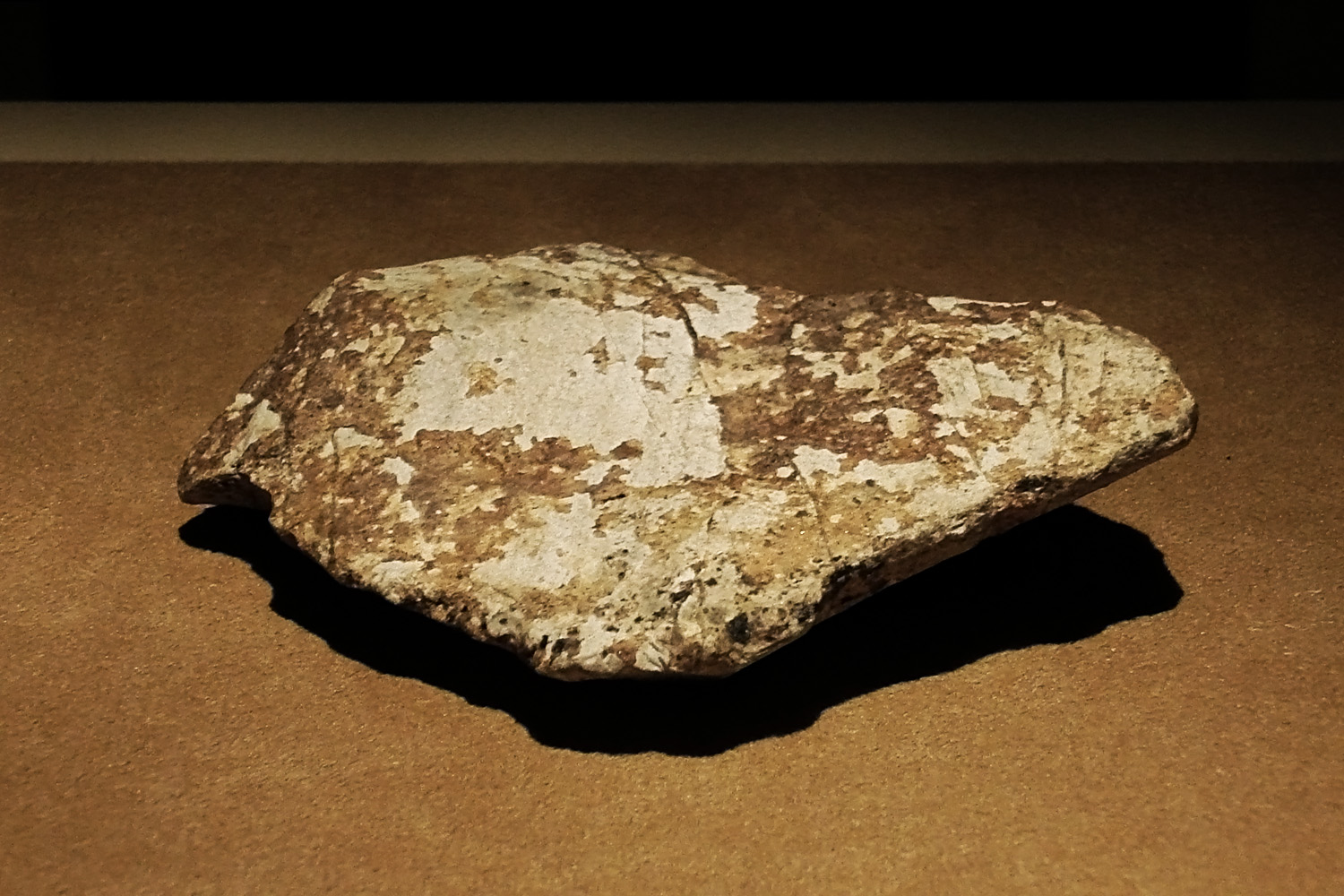 Stone scraper. Exhibition "Treasures of China", Canadian Museum of Civilization, 2007. Early Paleolithic Period (500,000 B.P. Excavated at Zhoukoudian, Beijing, 1966 A two-edged flint scraper used by Peking men to cut vegetation and scrape flesh off animal skins.